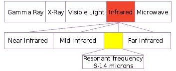 Diagram of the electromagnetic spectrum. Specifically pertaining to far infrared.